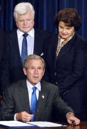 President George W. Bush signing into law comprehensive legislation sponsored by Senators Dianne Feinstein (D-Calif.), Edward M. Kennedy (D-Mass.), Jon Kyl (R-Ariz.), and Sam Brownback (R-Kansas) to help prevent terrorists from entering the United States through loopholes in our immigration and visa system.